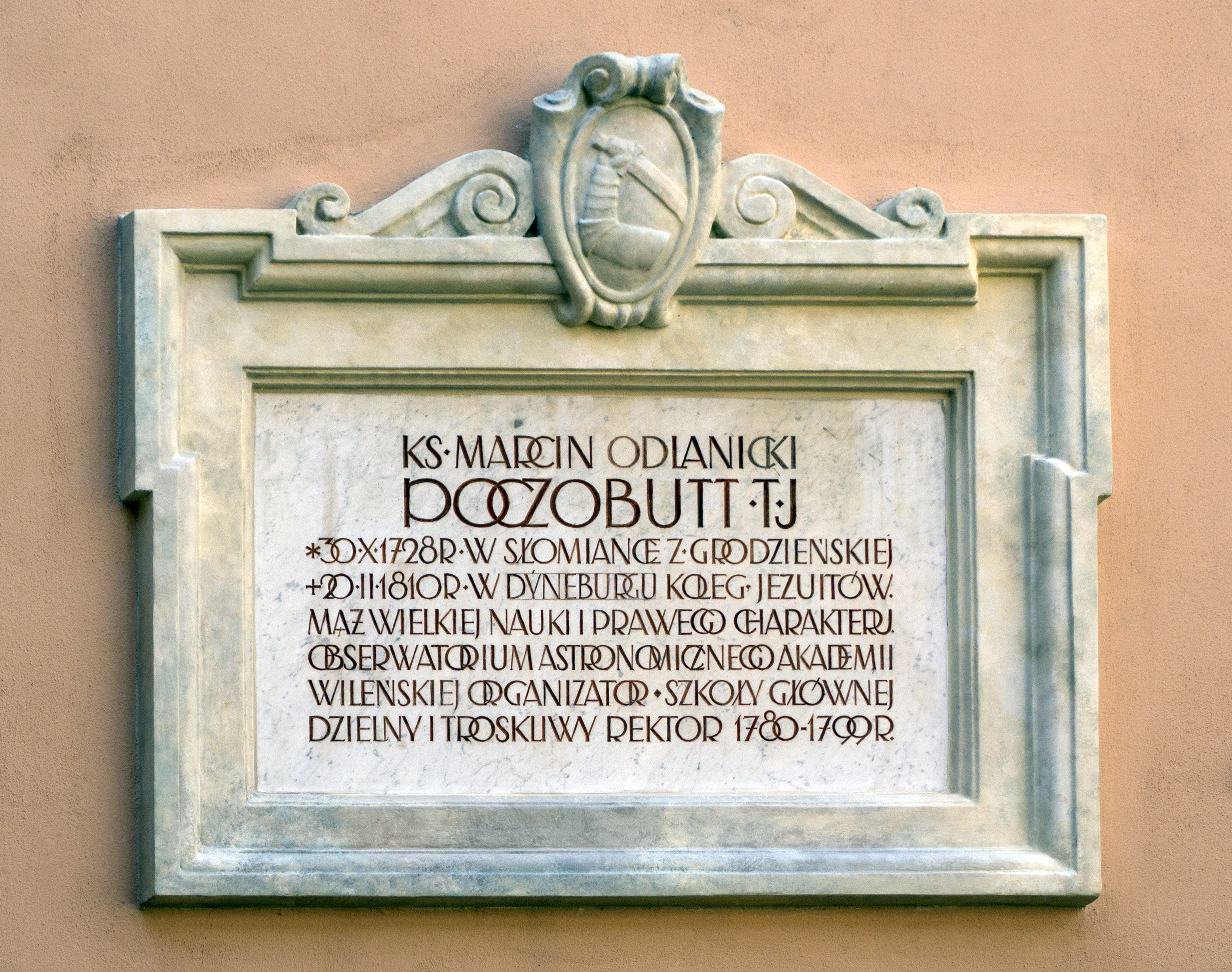 The plaque in memory of Polish-Lithuanian astronomer, mathematician and jesuit Marcin Odlanicki Poczobutt (1728–1810) in the Observatory Courtyard of the Vilnius University